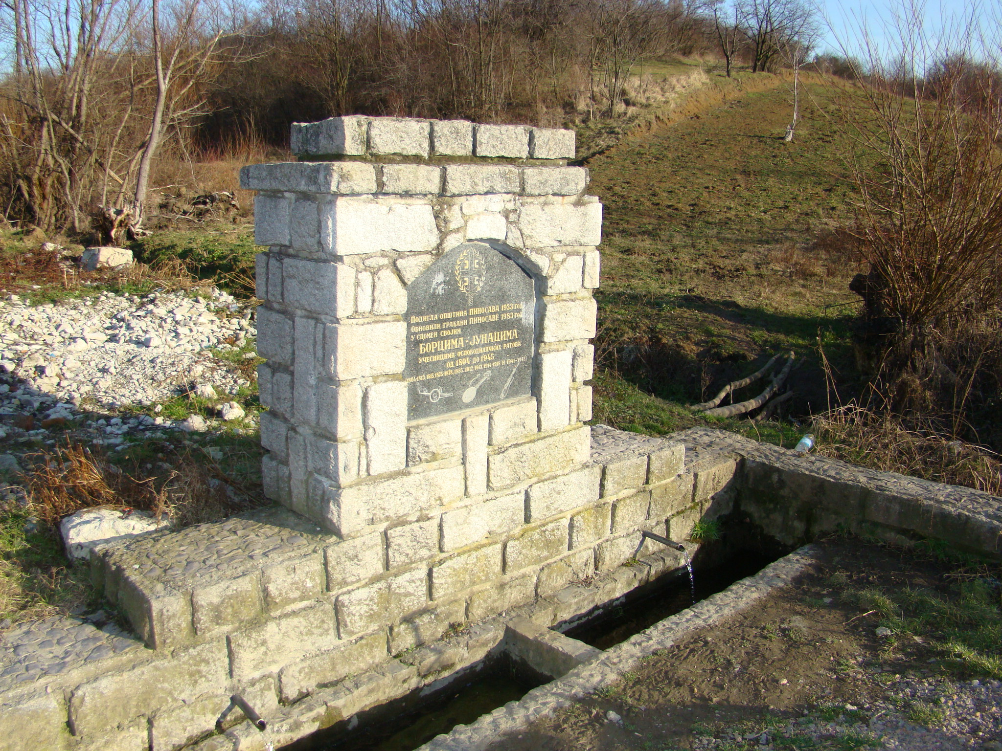 Monument in Pinosava, Serbia